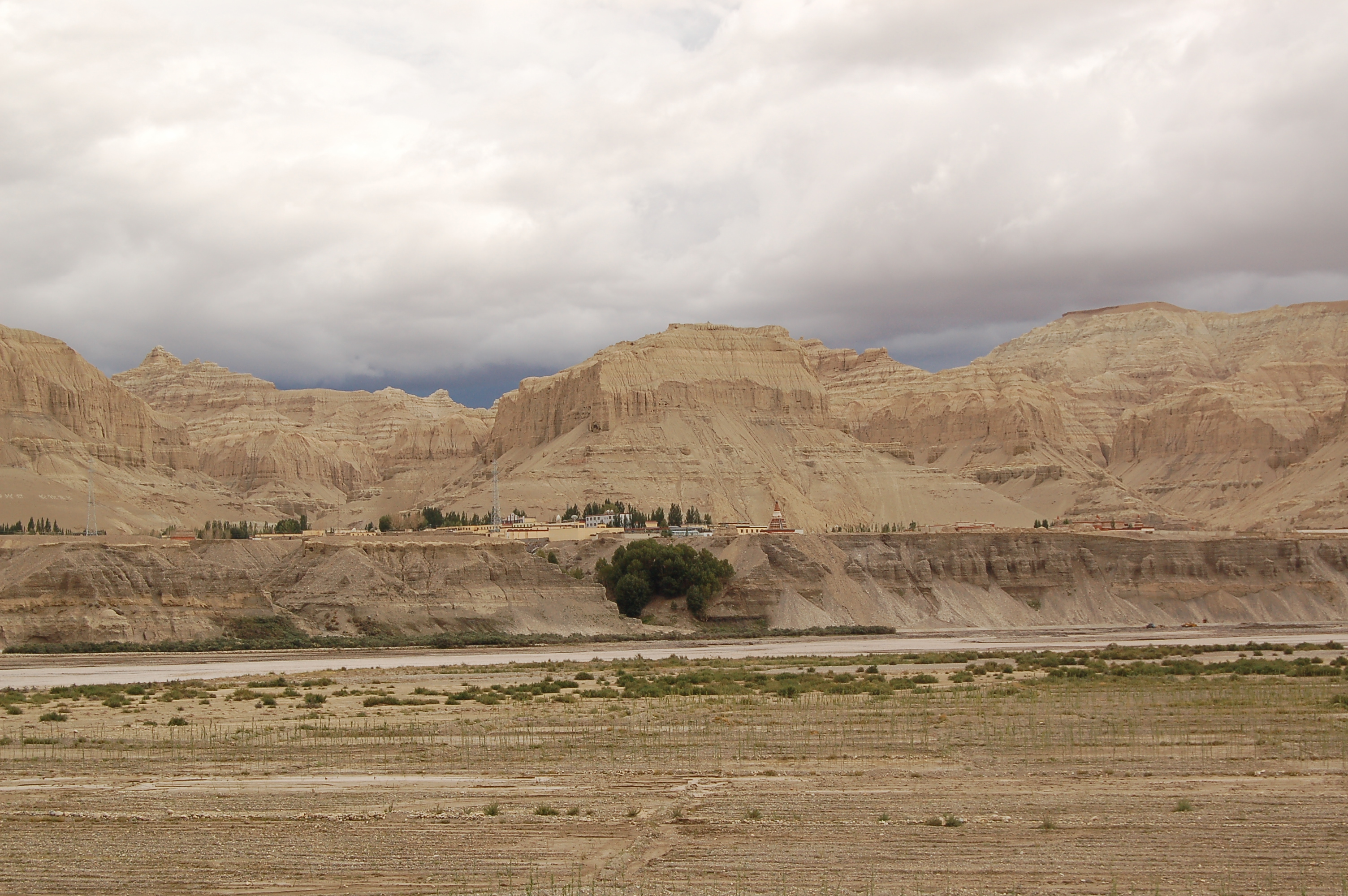 View of Tholing Chinatown (left) und Monastery (right) in Western Tibet